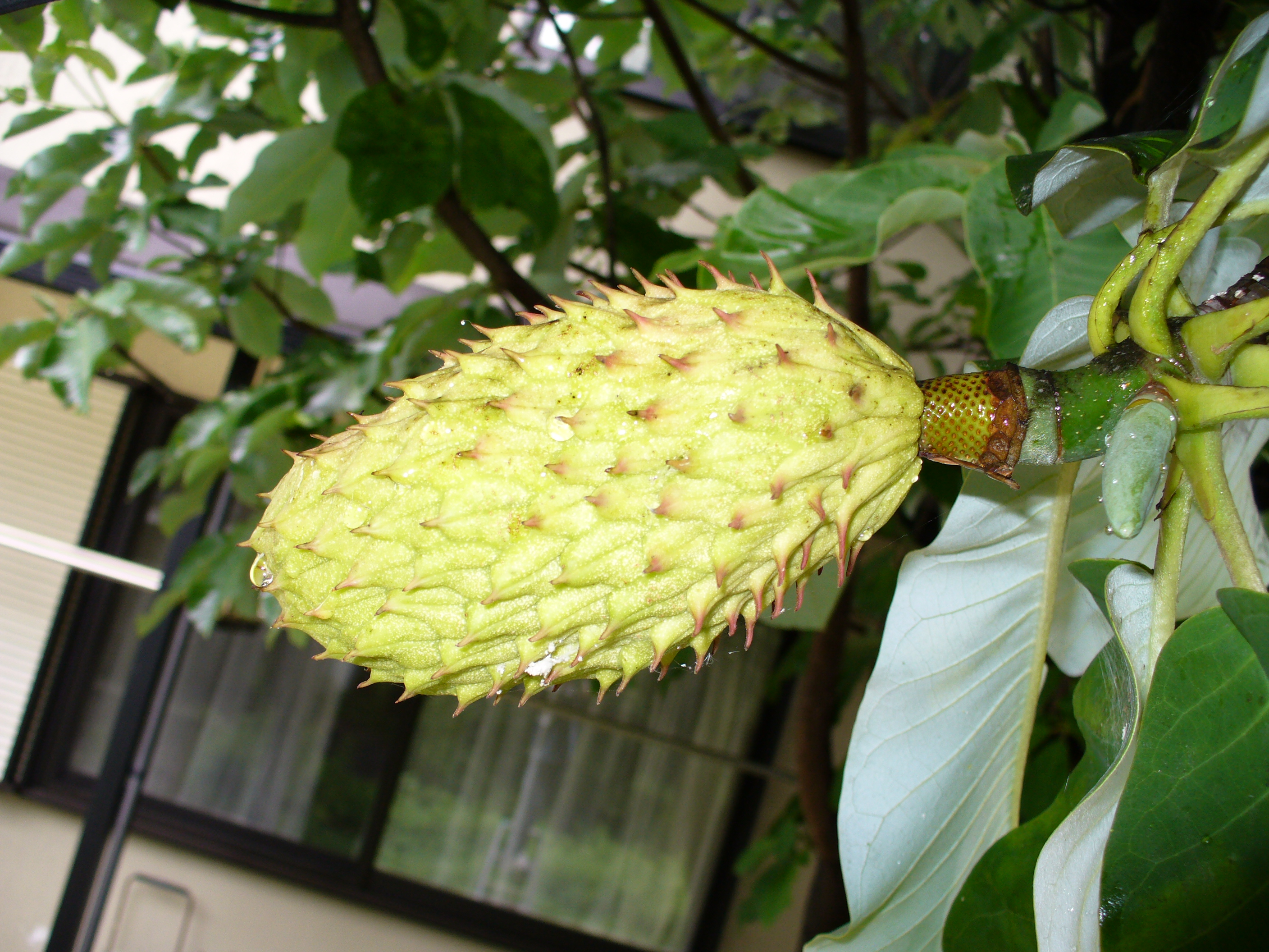 Photograph of Magnolia obovata,taken in Komaki city, Aichi, Japan. (Fruit)